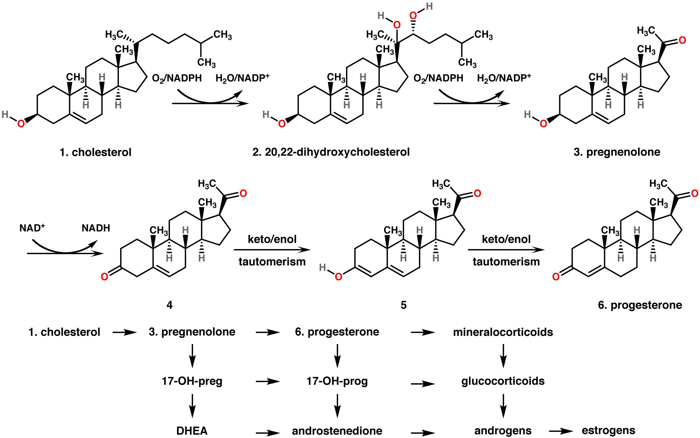 Adapted from Dewick, P. Medicinal Natural Products: A Biosynthetic Approach. 2nd ed.; Wiley&Sons: West Sussex, England, 2001; p 244.